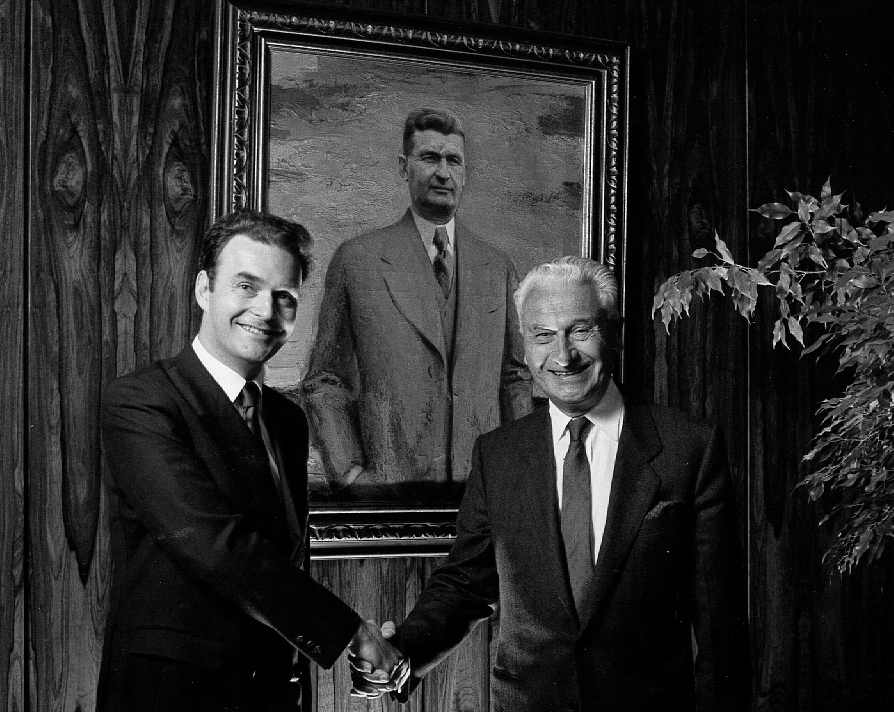 left to right: Thomas G. Bata (son) with Thomas J. Bata (father) pictured in front of Tomáš Baťa portrait (Grandfather and company's founder)